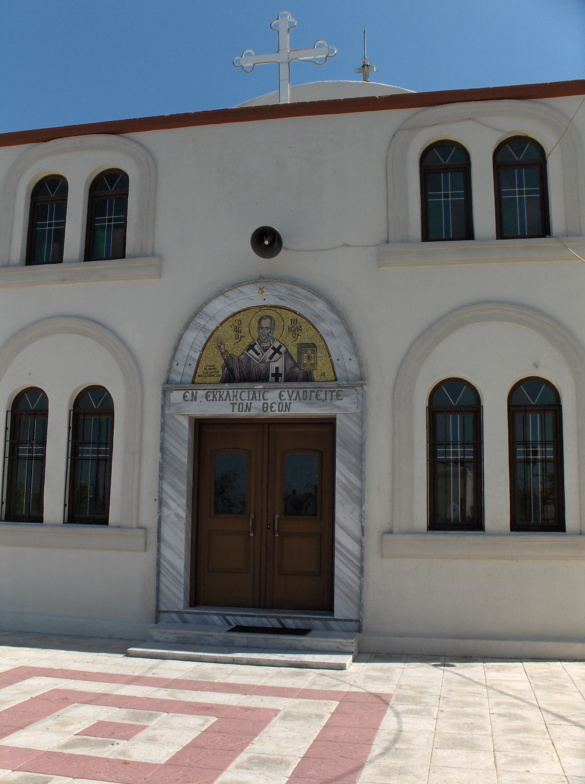 Greek orthodox church in Pyli, Kos island.